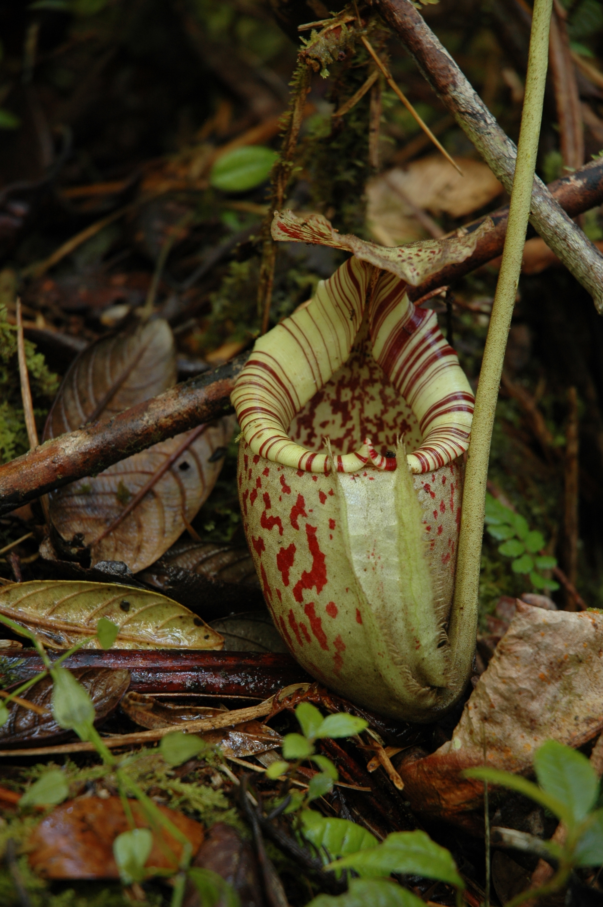 Nepenthes burbidgeae Pig Hill Kinabalu by Jeremiah Harris